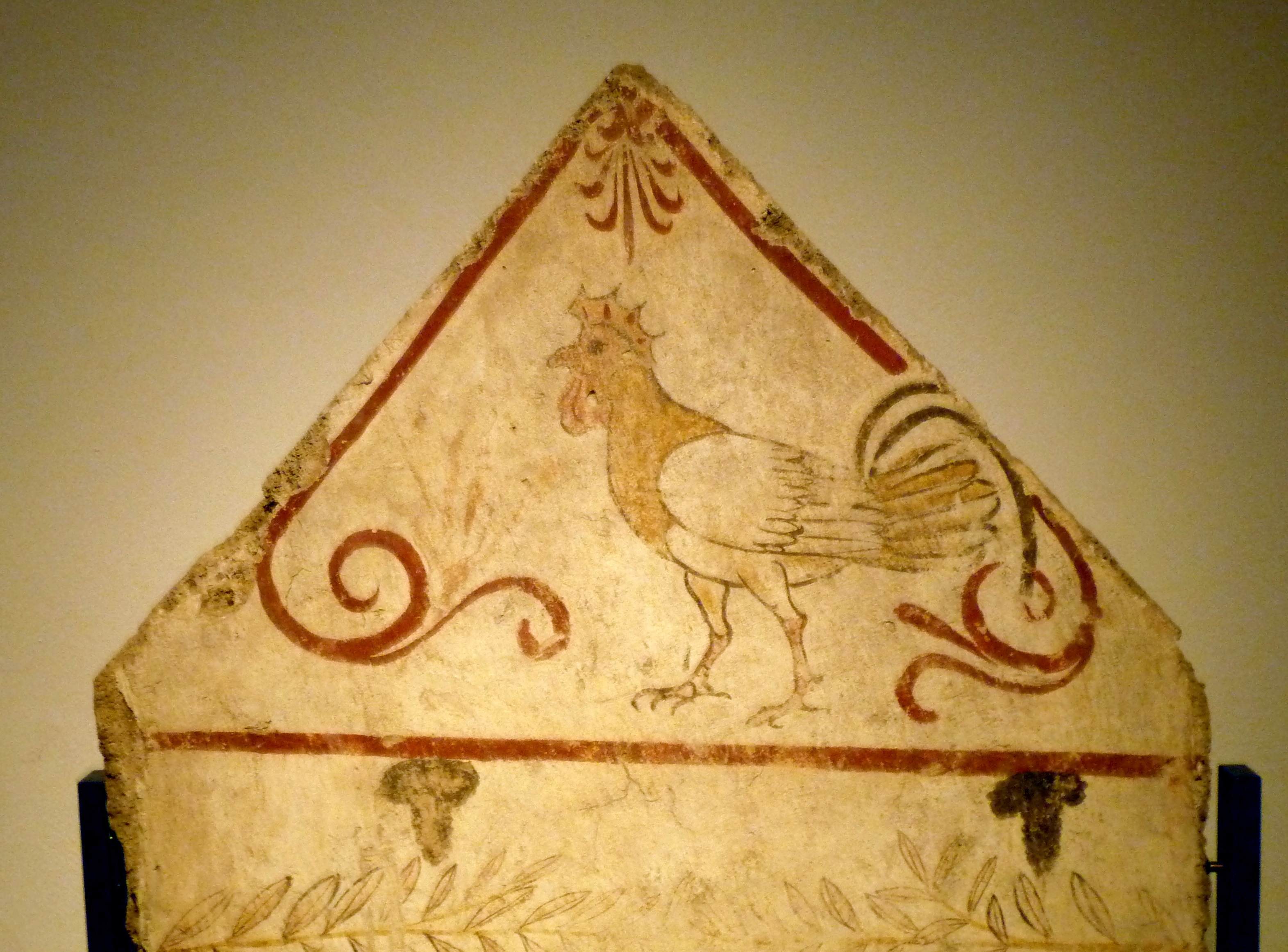 Lucanian Tomb of Paestum, Italy